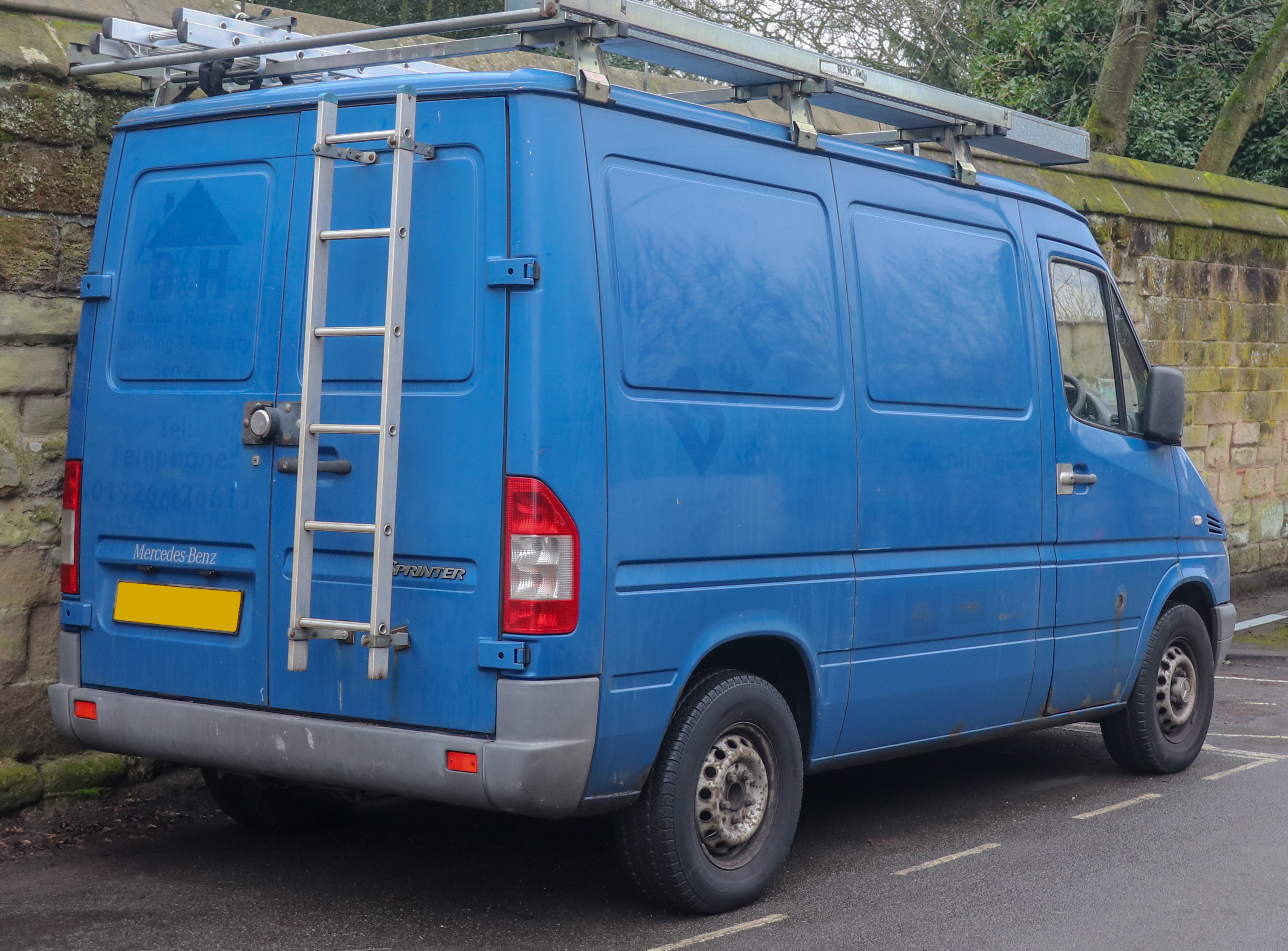 2004 Mercedes-Benz Sprinter 208 CDi SWB 2.2 Rear Taken in Warwick